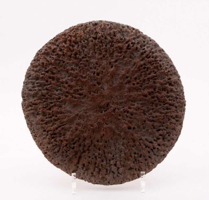 Back bone of a whale dating from the year 1000. Found at 'Het Plein' (the square) in Tiel, Gelderland, the Netherlands. Judging by the cutting marks the bone was probably used as a dinner plate.